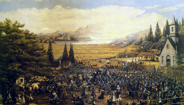 A painting of the portation in Grand-Pré, Nova Scotia.